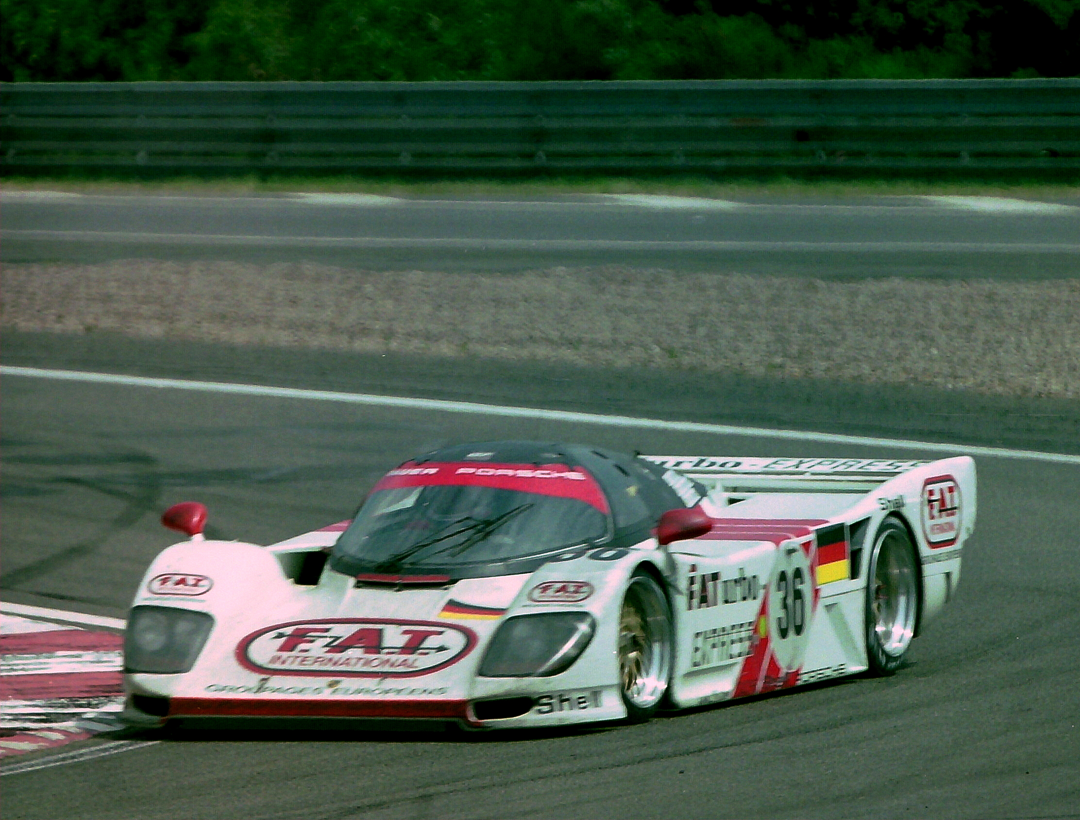 Dauer 962 LM - Mauro Baldi, Yannick Dalmas & Hurley Haywood at Mulsanne Corner at the 1994 Le Mans